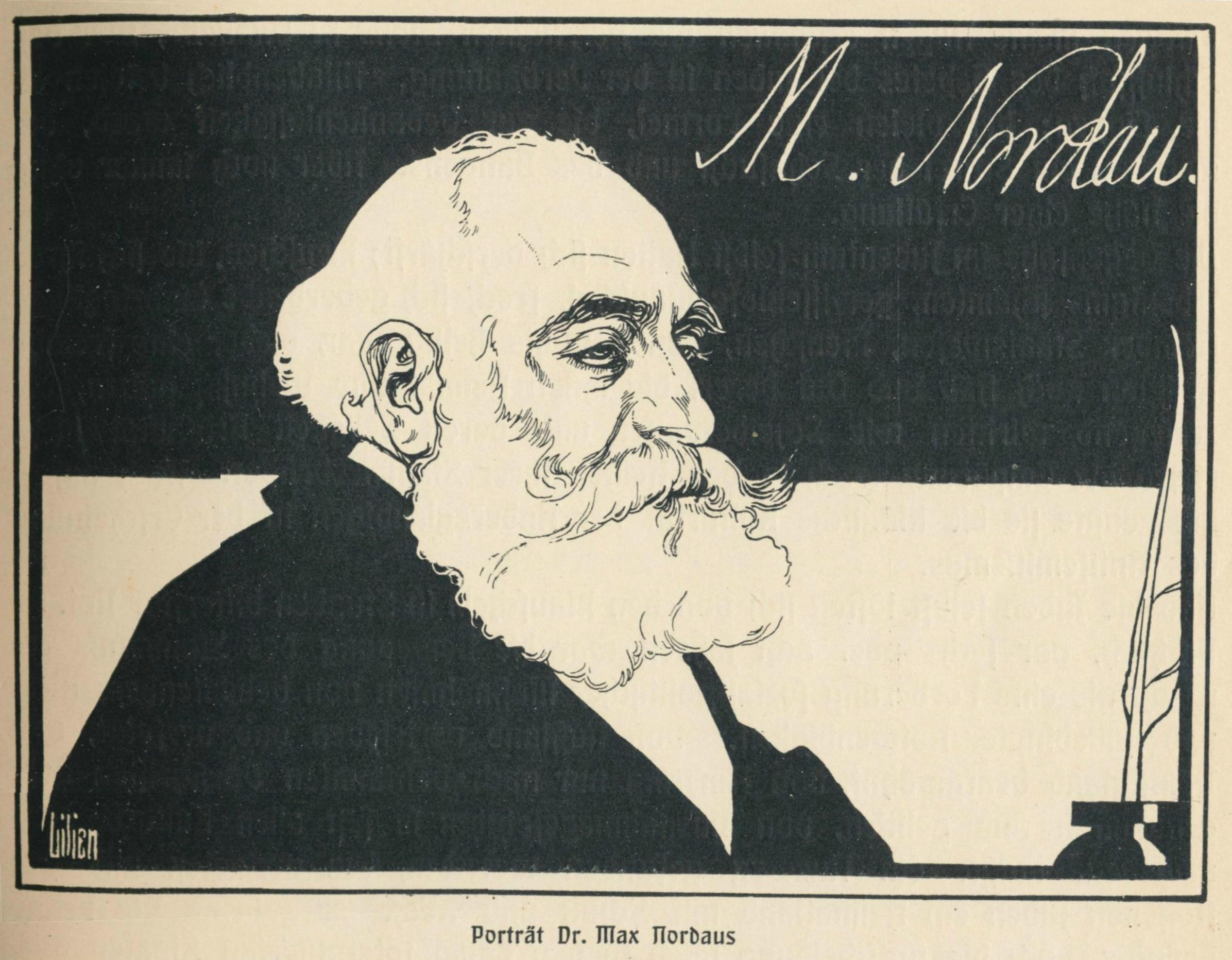 Max Nordau.